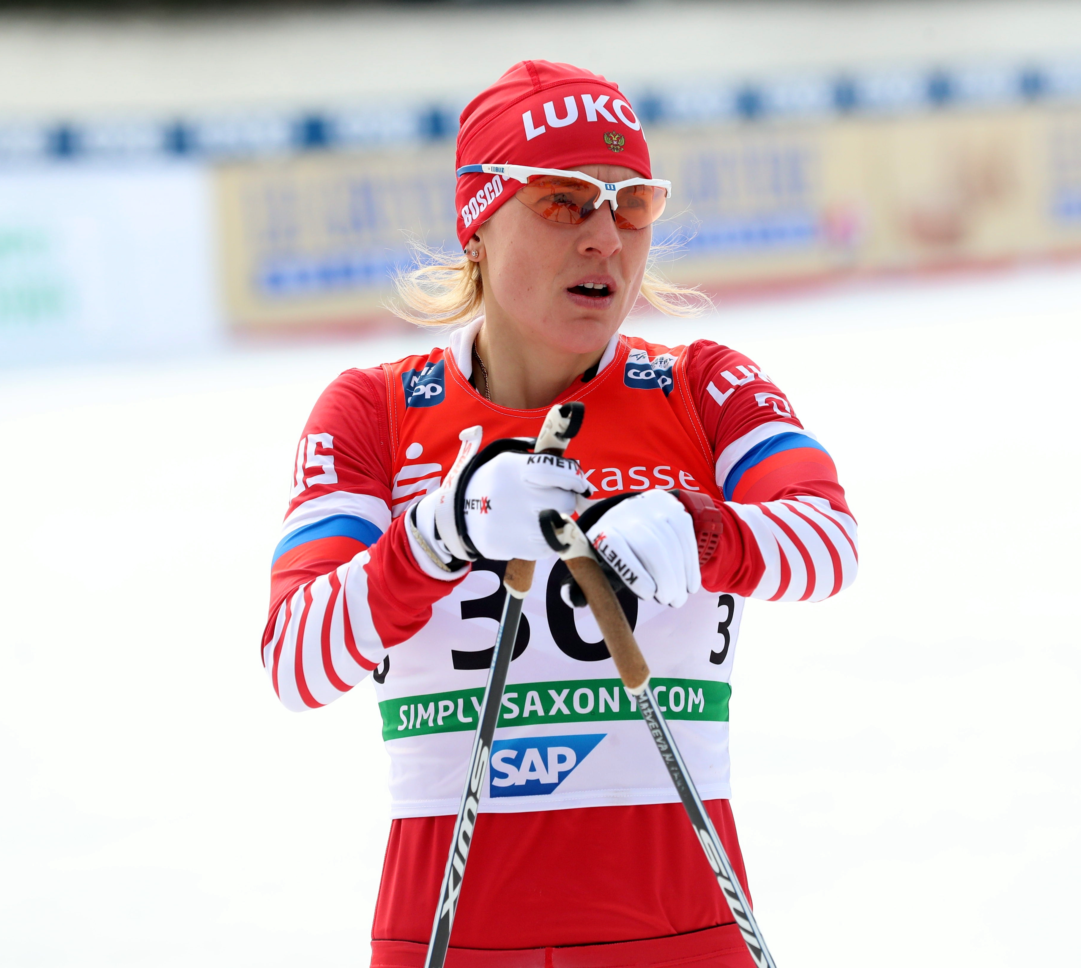 Women's Quarterfinal, Heat 2, at the FIS Cross-Country World Cup Dresden 2019 (1.6 km Free Sprint)